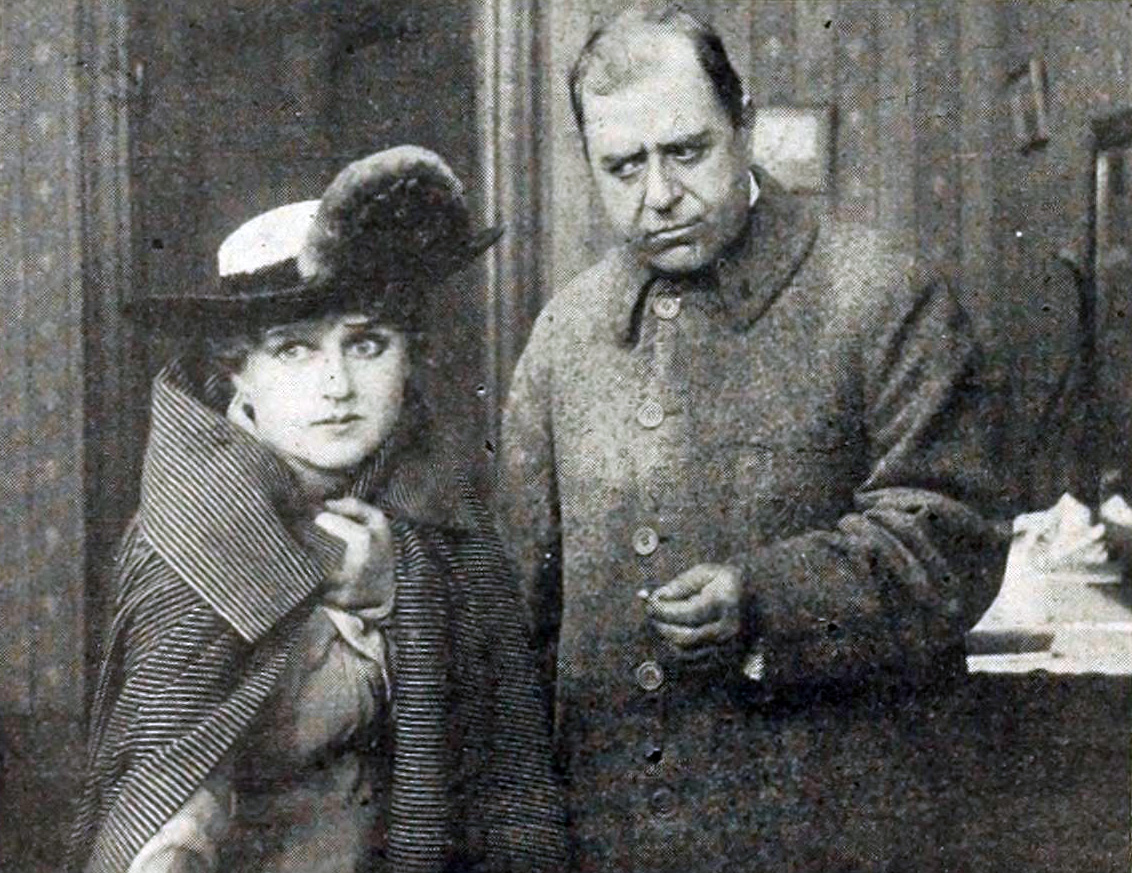 Illustration of a review in The Moving Picture World for The Man Behind the Curtain